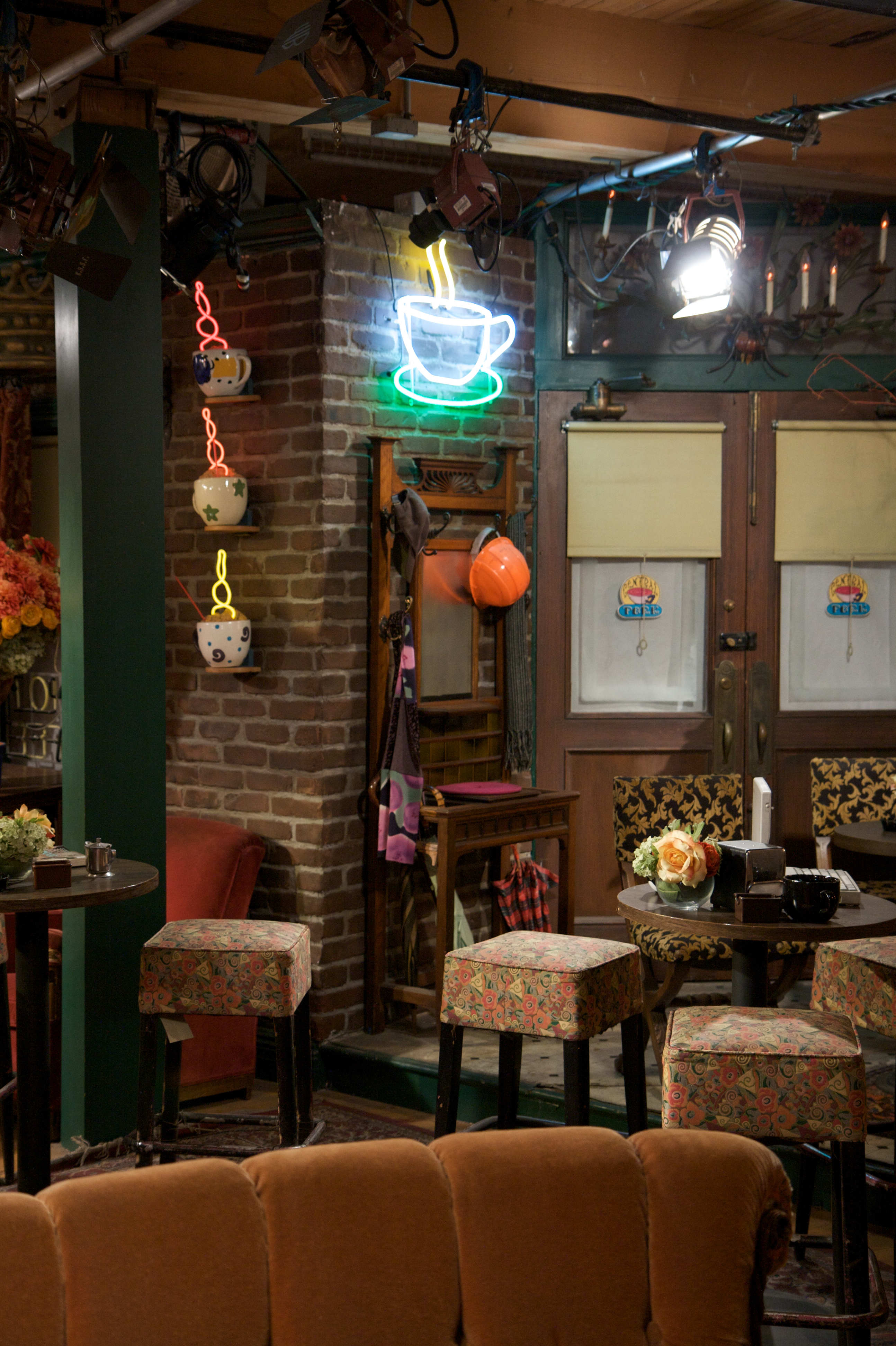 Set of "Central Perk" as displayed on the Warner Bros. Studio Tour.